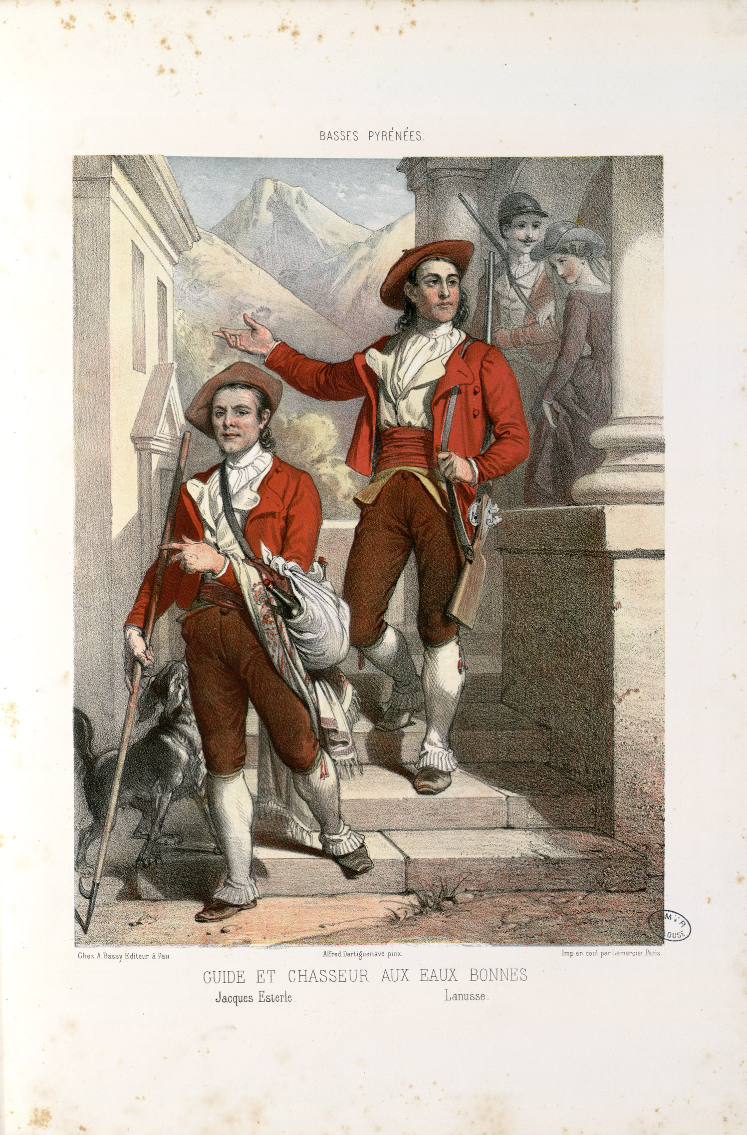 Guide and hunter in Eaux Bonnes (see full description on the site of the library of Toulouse)